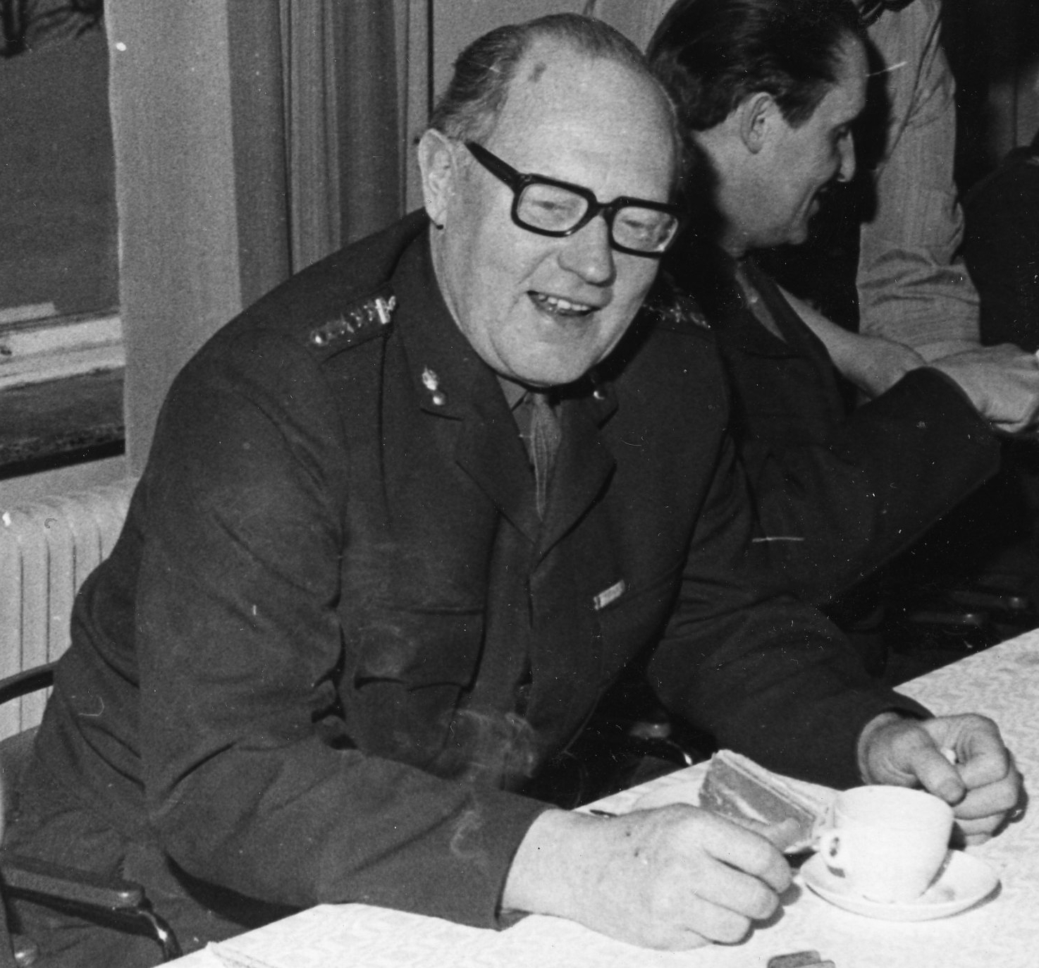 Discharge of civilian workers at Småland Artillery Regiment (A 6). Colonel Claes Carlsten.